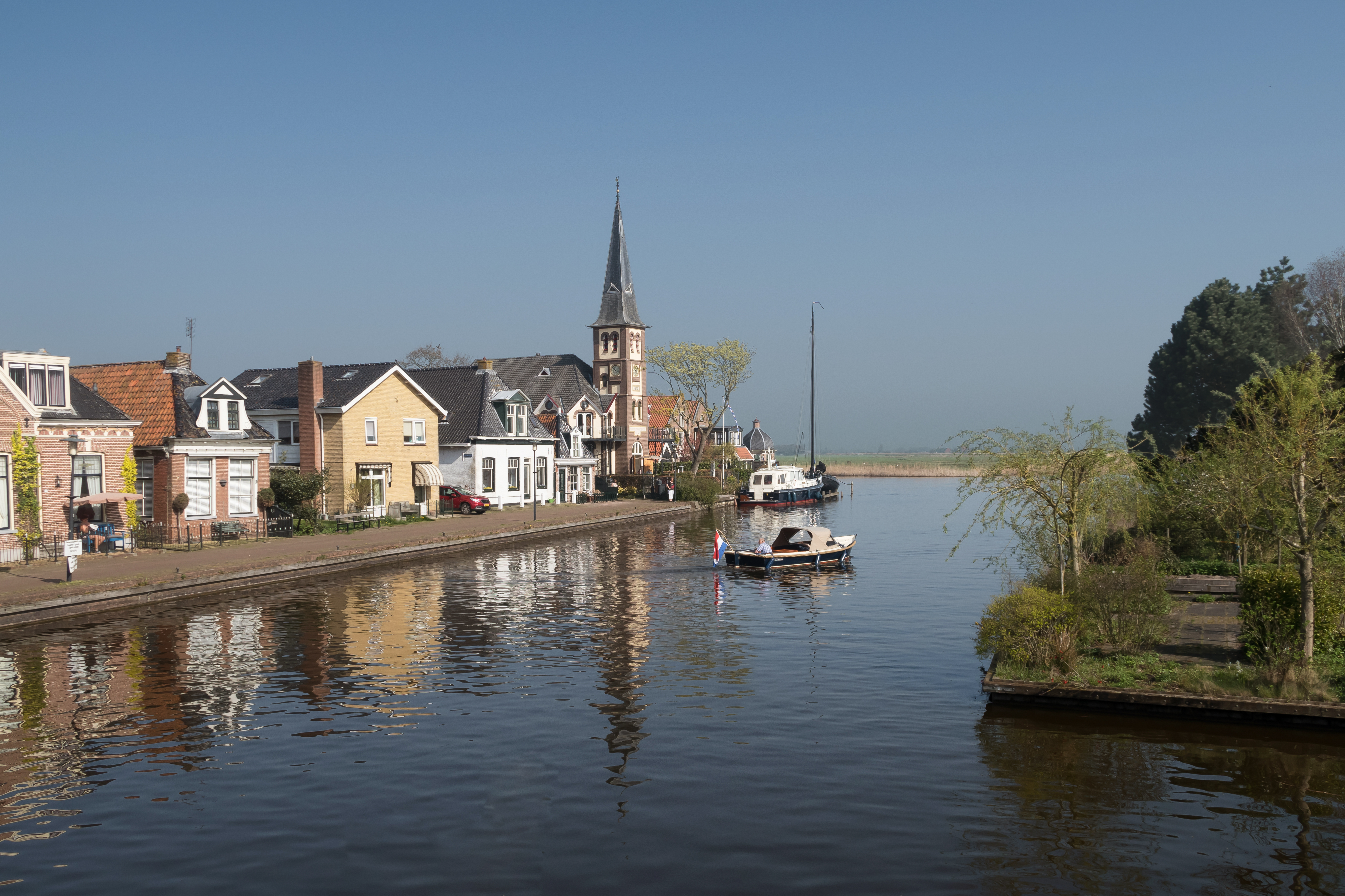 Woudsend, view to the Iewal from the drawing bridge with the reformed church